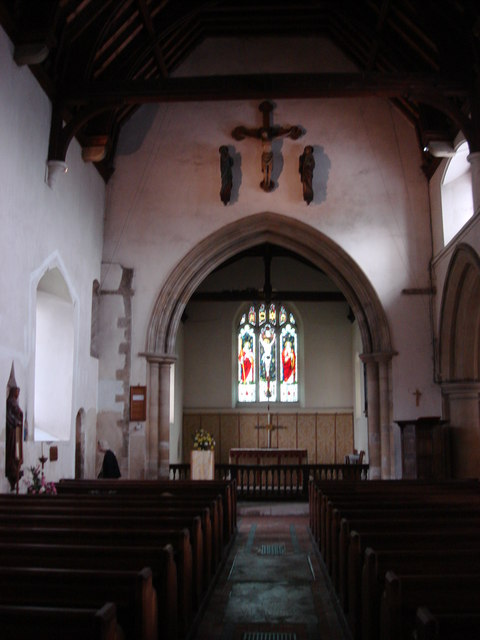 Interior, All Saints Church, Maldon